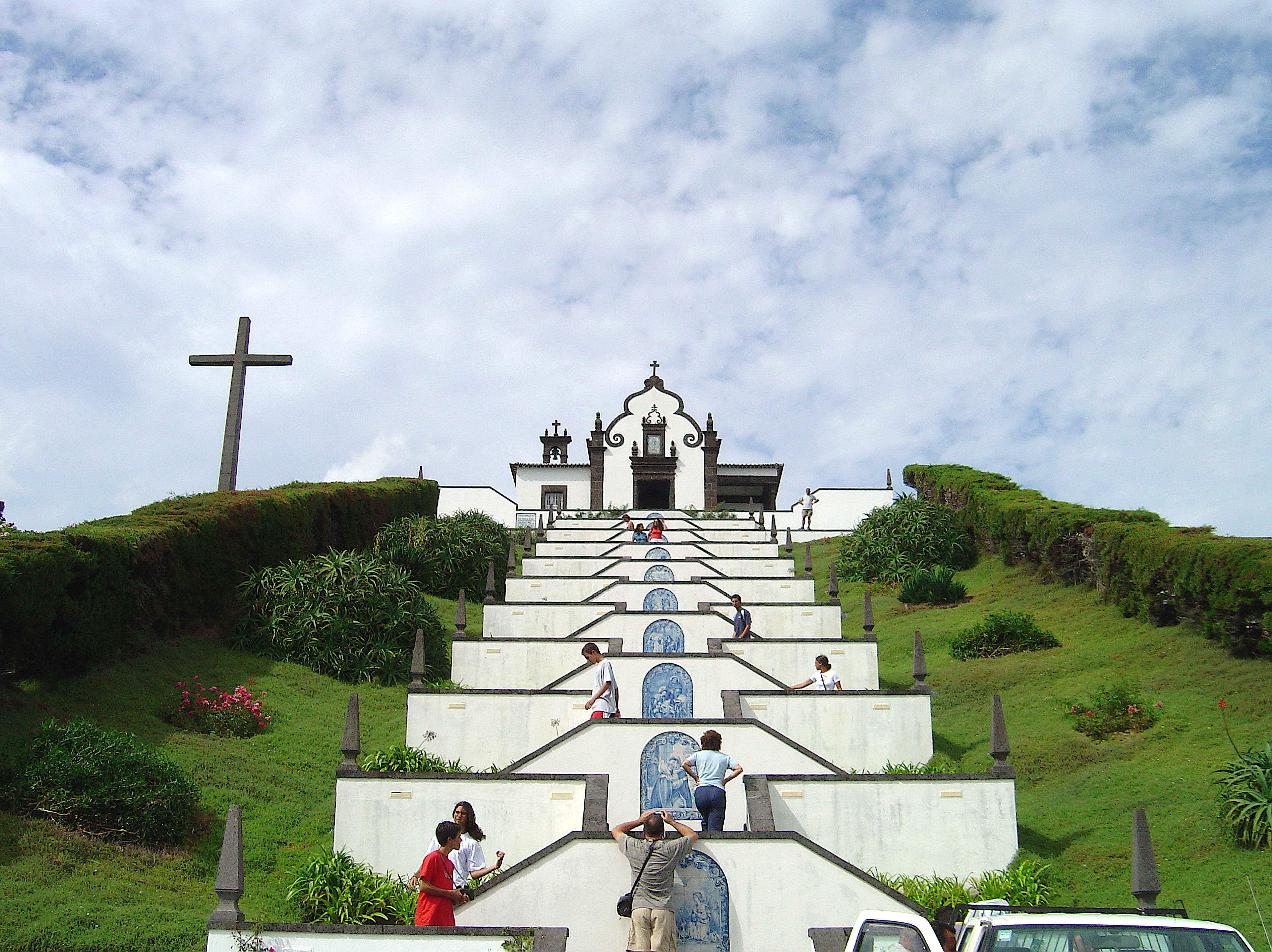 A view of the main staircase from the bottom towards hermitage of Nossa Senhora da Paz, in the civil parish of São Miguel, municipality of Vila Franca do Campo (Azores), Portugal